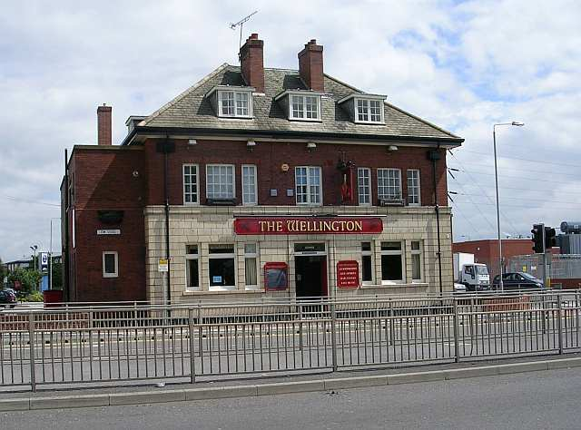 The Wellington - Low Road (As of 2012 this has now closed Mtaylor848 (talk) 20:04, 7 November 2012 (UTC))